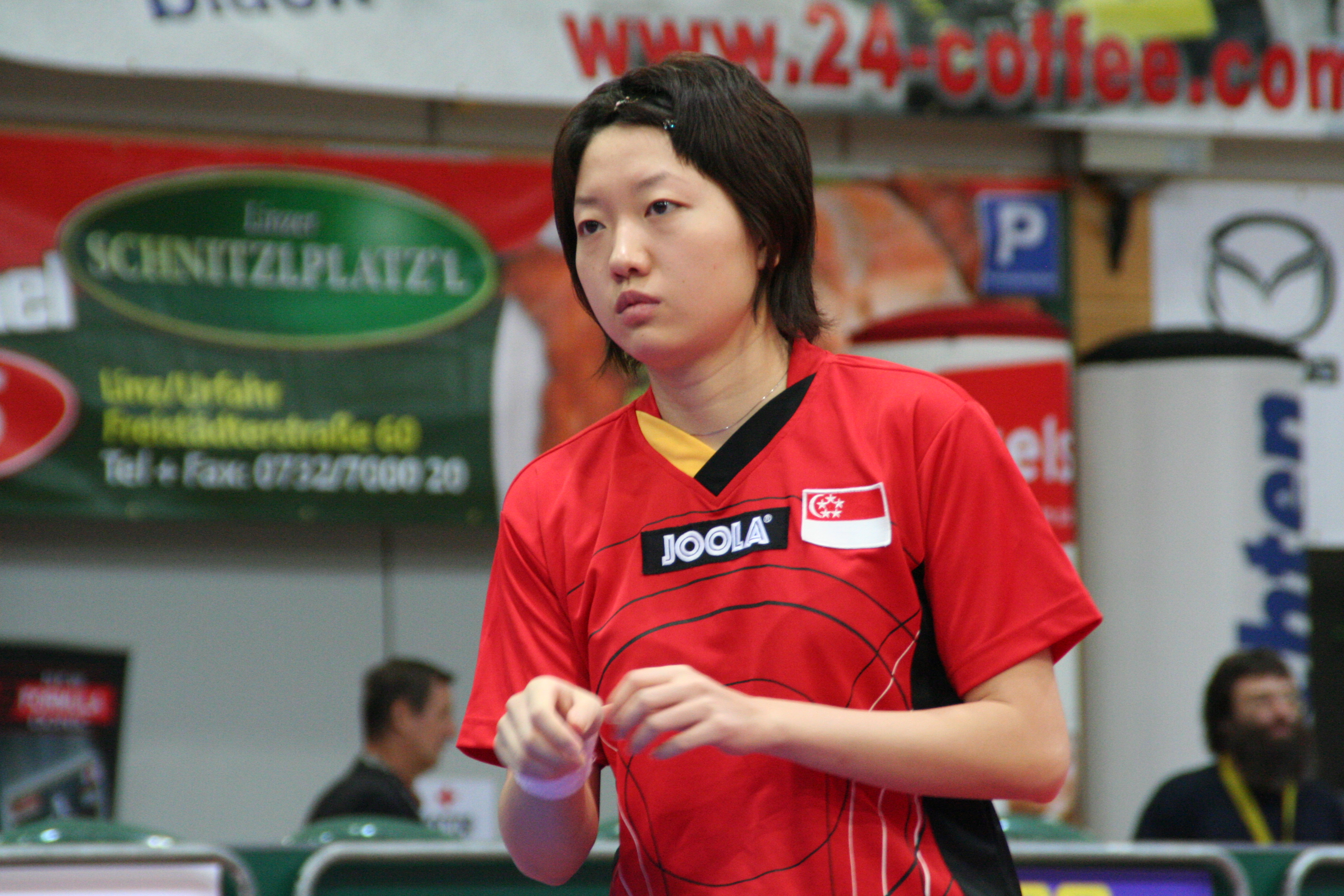 Singaporean Olympic table tennis player Li Jiawei (born 9 August 1981) at the International Table Tennis Federation Pro Tour Liebherr Austrian Open in Wels, Upper Austria, Austria.